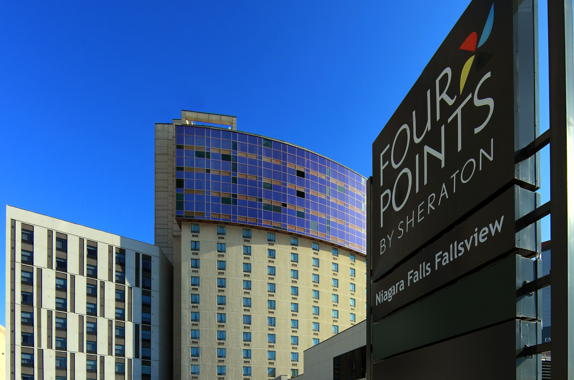 Four Points Sheraton Fallsview Exterior